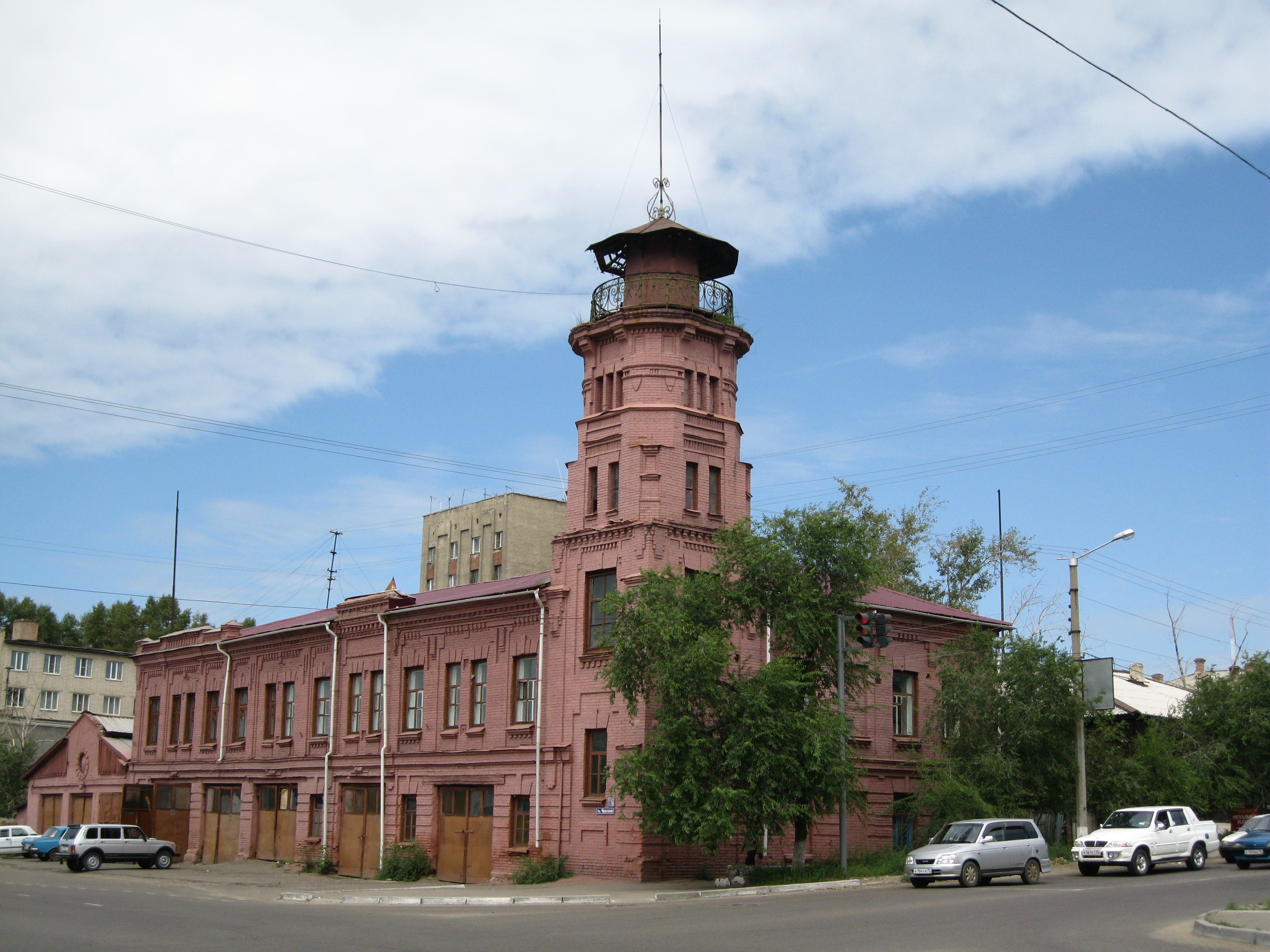 Former Fire brigade and police office in Chita, Russia